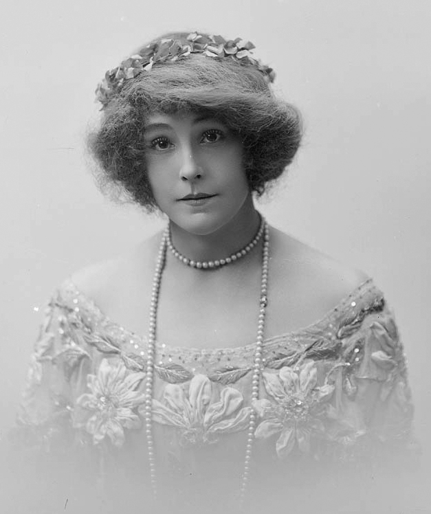 Format: Photograph Notes: Find more detailed information about this photographic collection: .au/item/itemDetailPaged.aspx?itemID=430464 Search for more great images in the State Library's collections: .au/search/SimpleSearch.aspx From the collection of the State Library of New South Wales